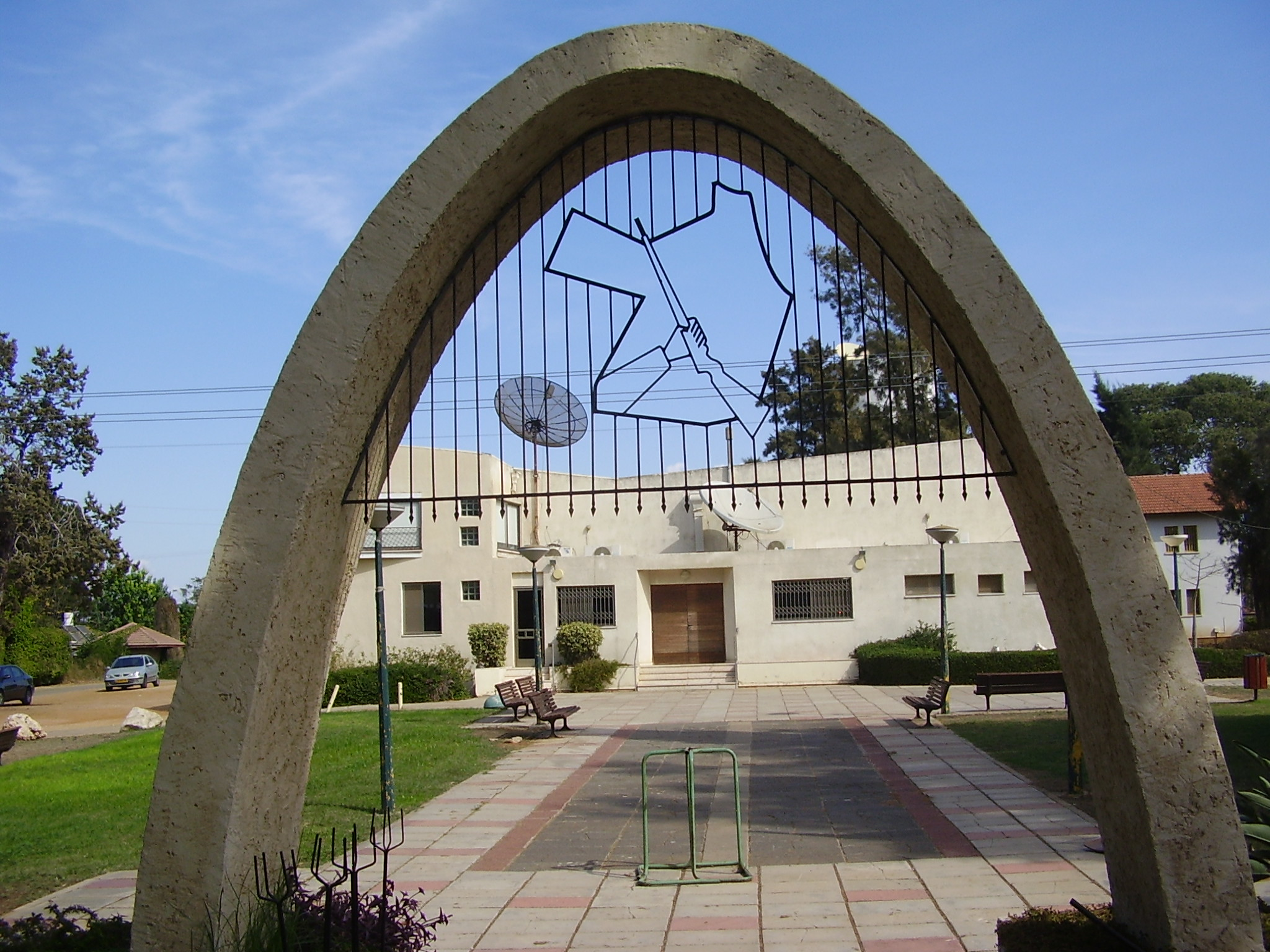 war memorial in nordia